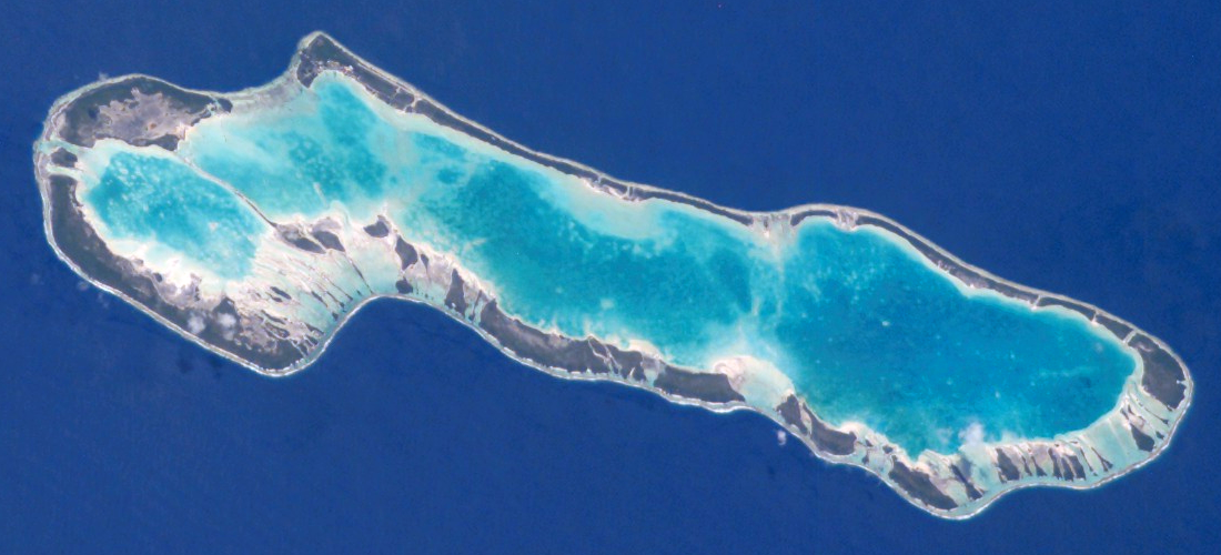 satellite picture of Anaa atoll